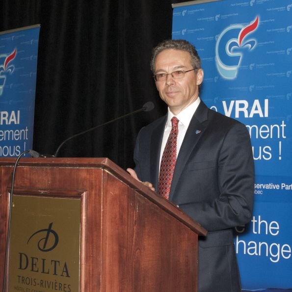 Adrien D. Pouliot.